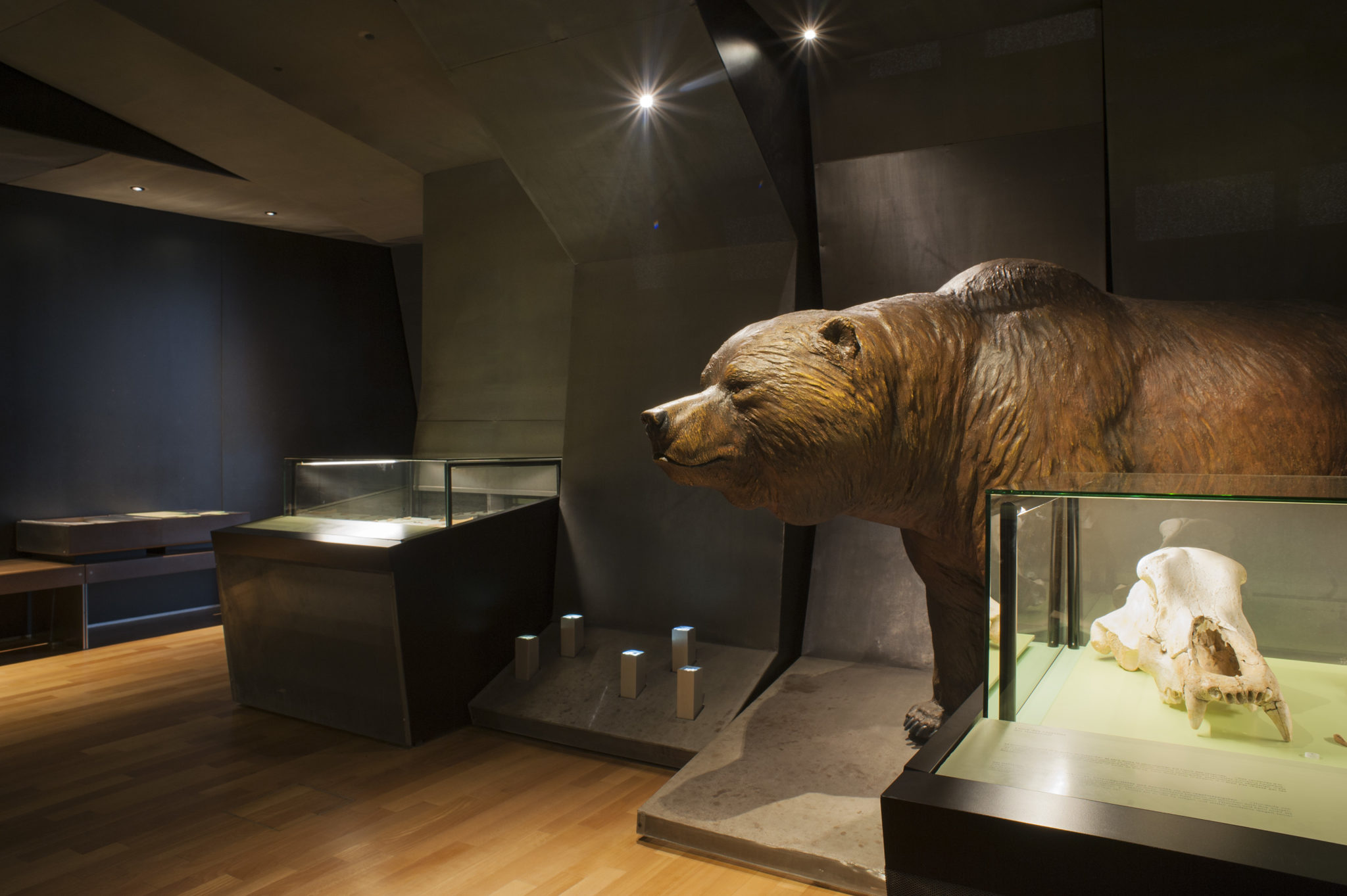 Image de l'espace "Au pays du grand ours" du musée du Laténium